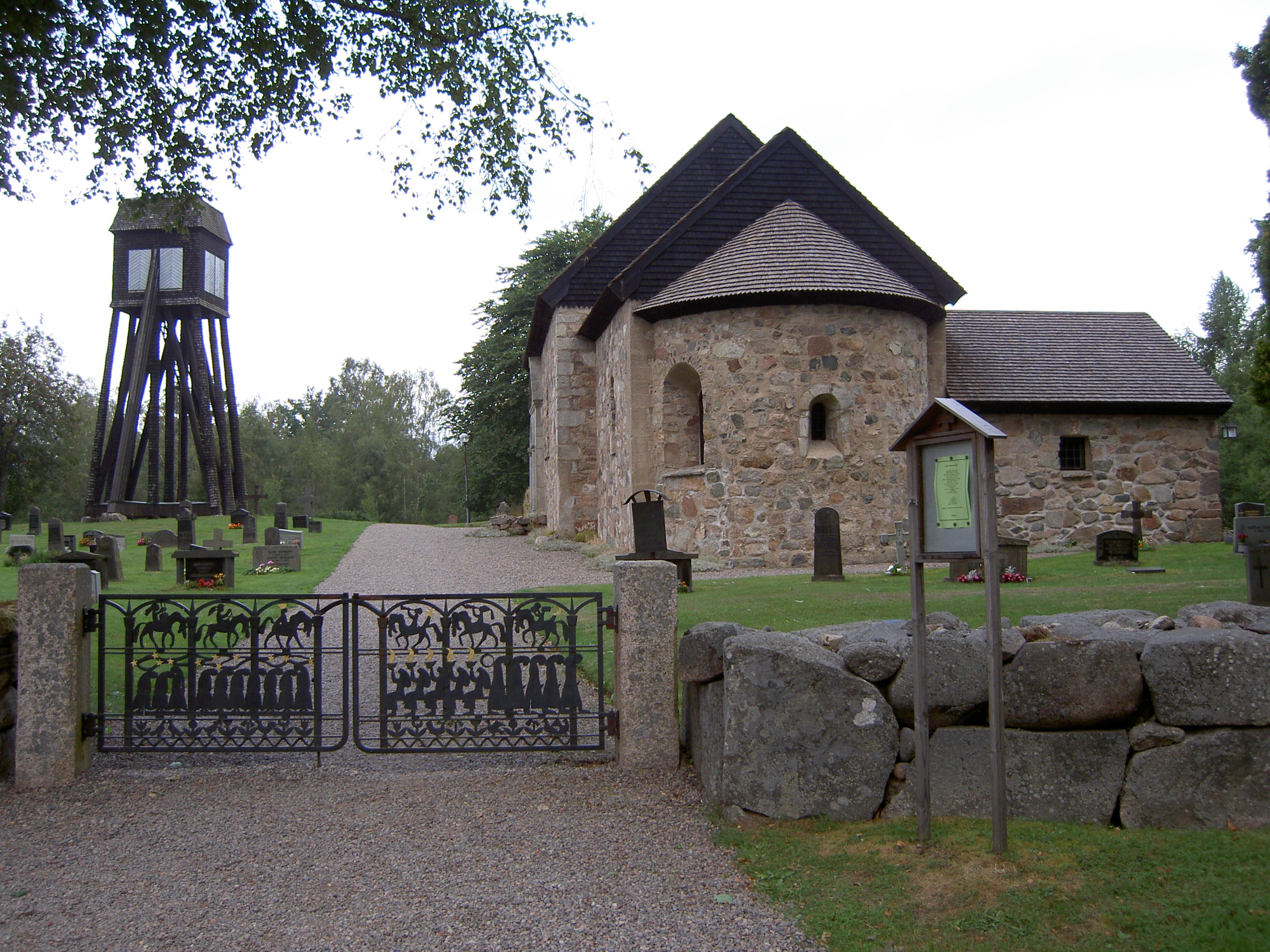 Old Church of Hjälmseryd